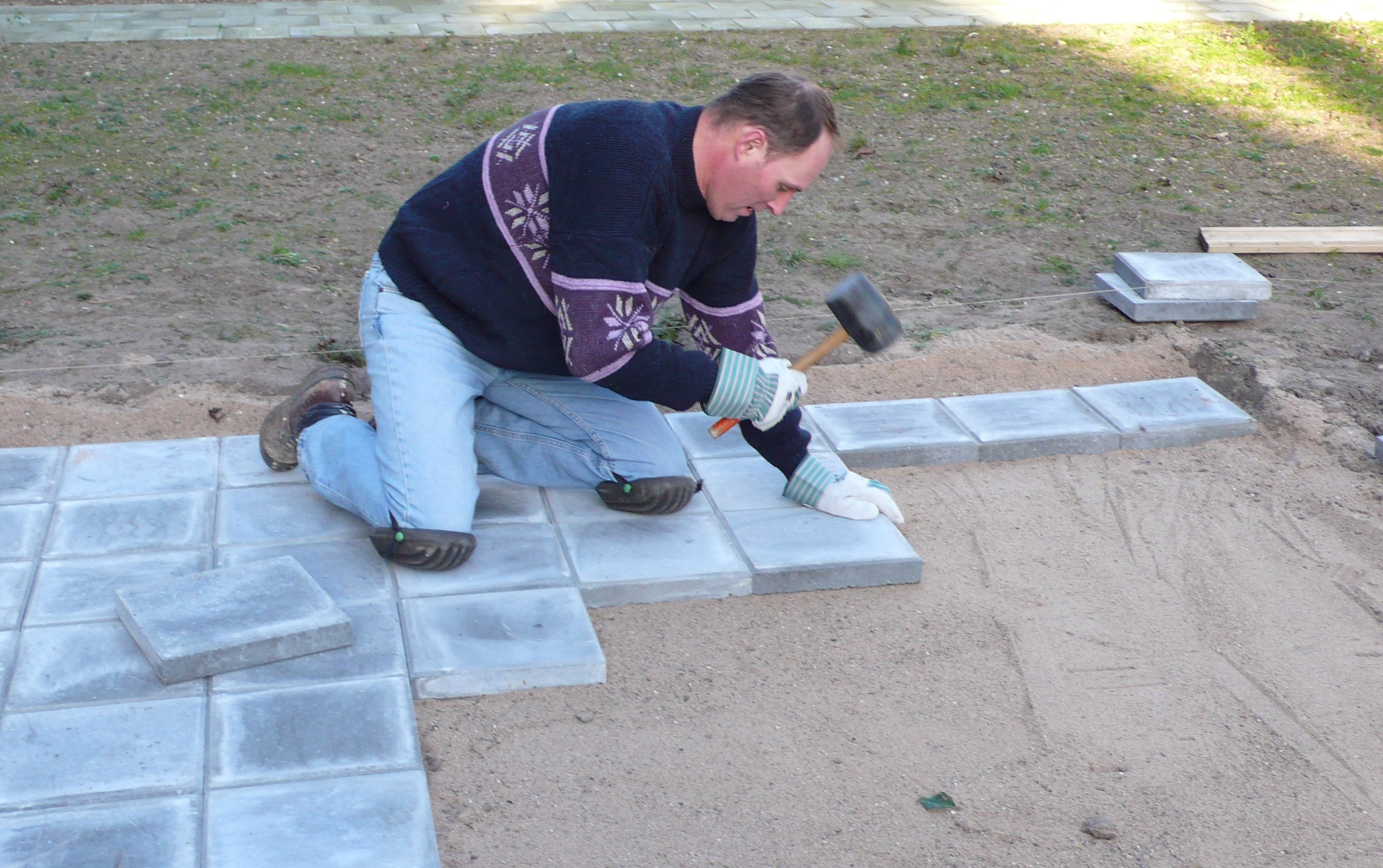 Making pavement.